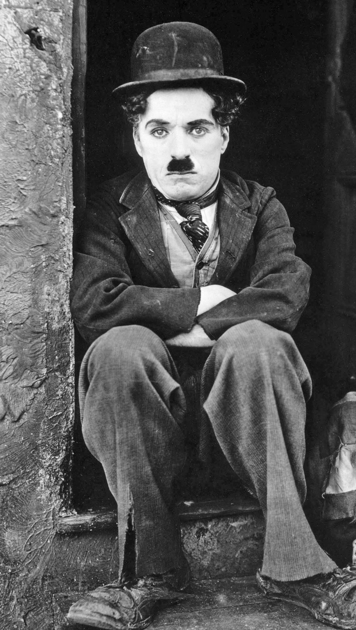 Publicity photo from Charlie Chaplin's 1921 movie The Kid. Pictured are Charlie Chaplin and Jackie Coogan.